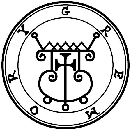 Gremory seal, THE BOOK OF THE GOETIA OF SOLOMON THE KING (1904)